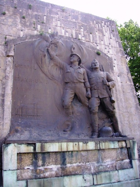 Franco-American monument near St Mihiel